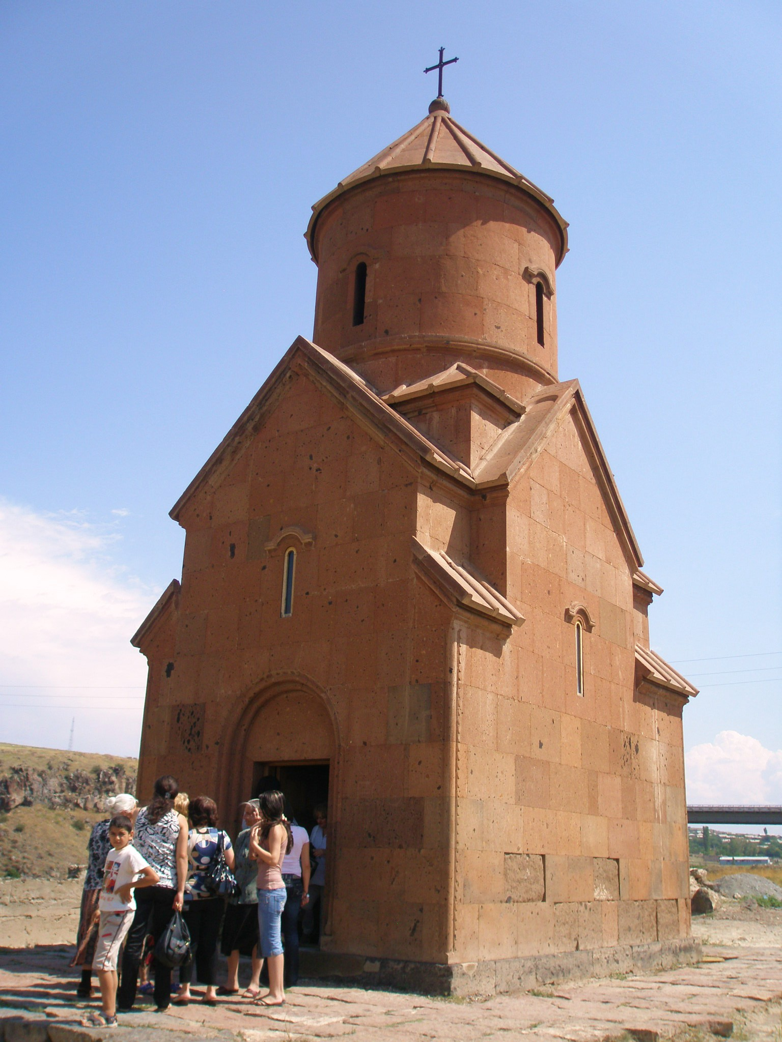 Saint Sargis Church of Ashtarak.